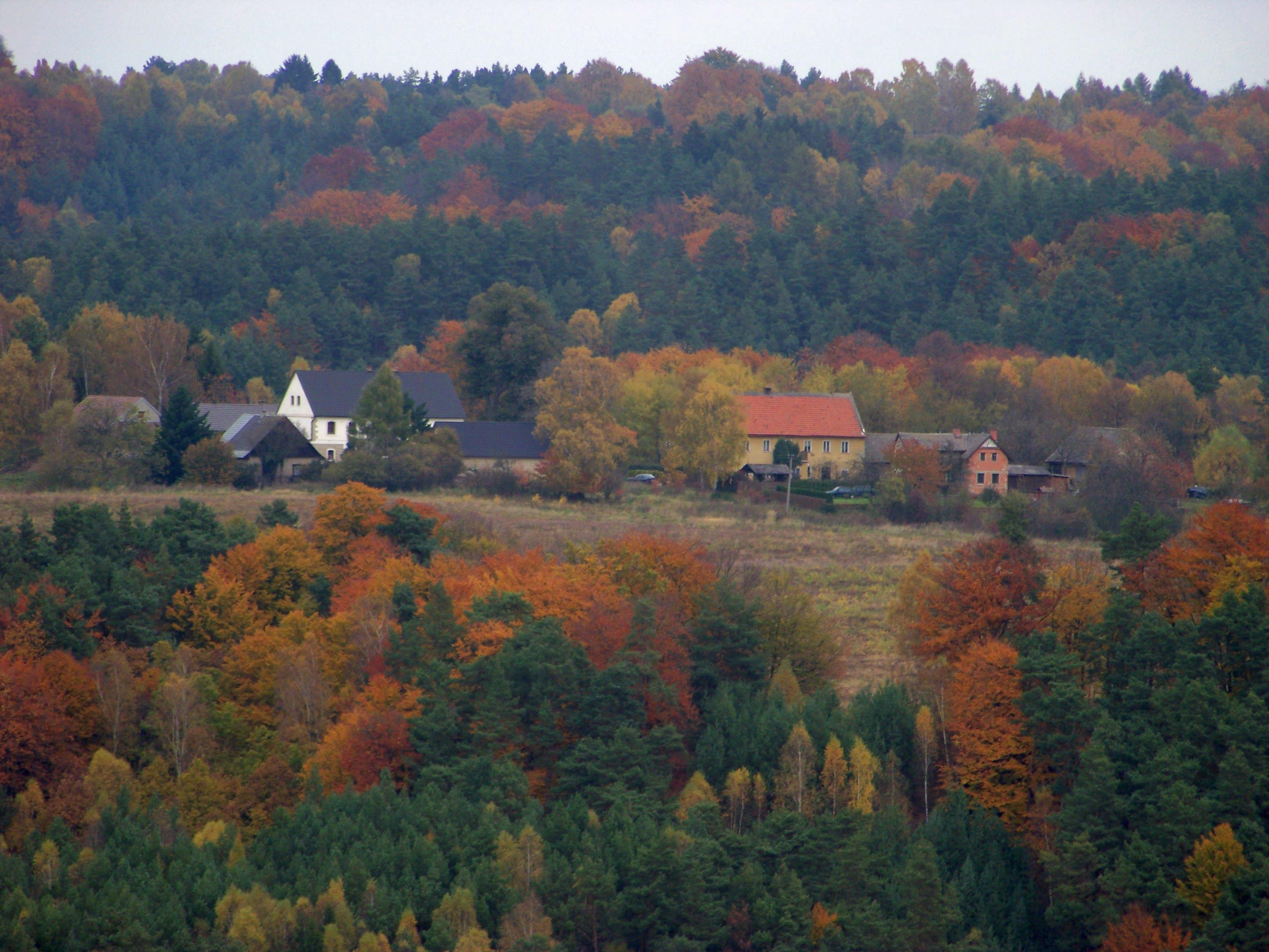 Mšeno, Mělník District, Central Bohemian Region, the Czech Republic. Landscape protected area of Kokořín. Příbohy, from Vyhlídky.